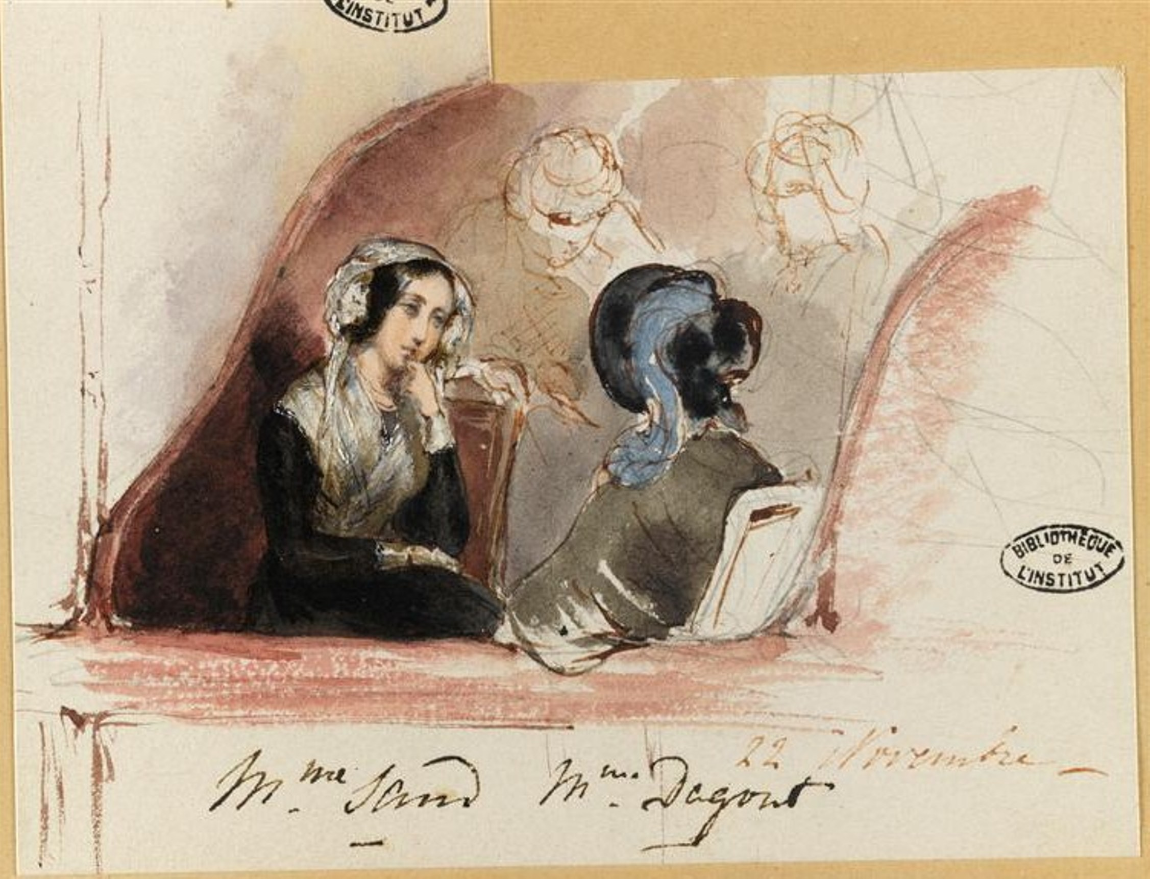 Watercolor of George Sand and Marie d'Agoult by Mathilde Odier.